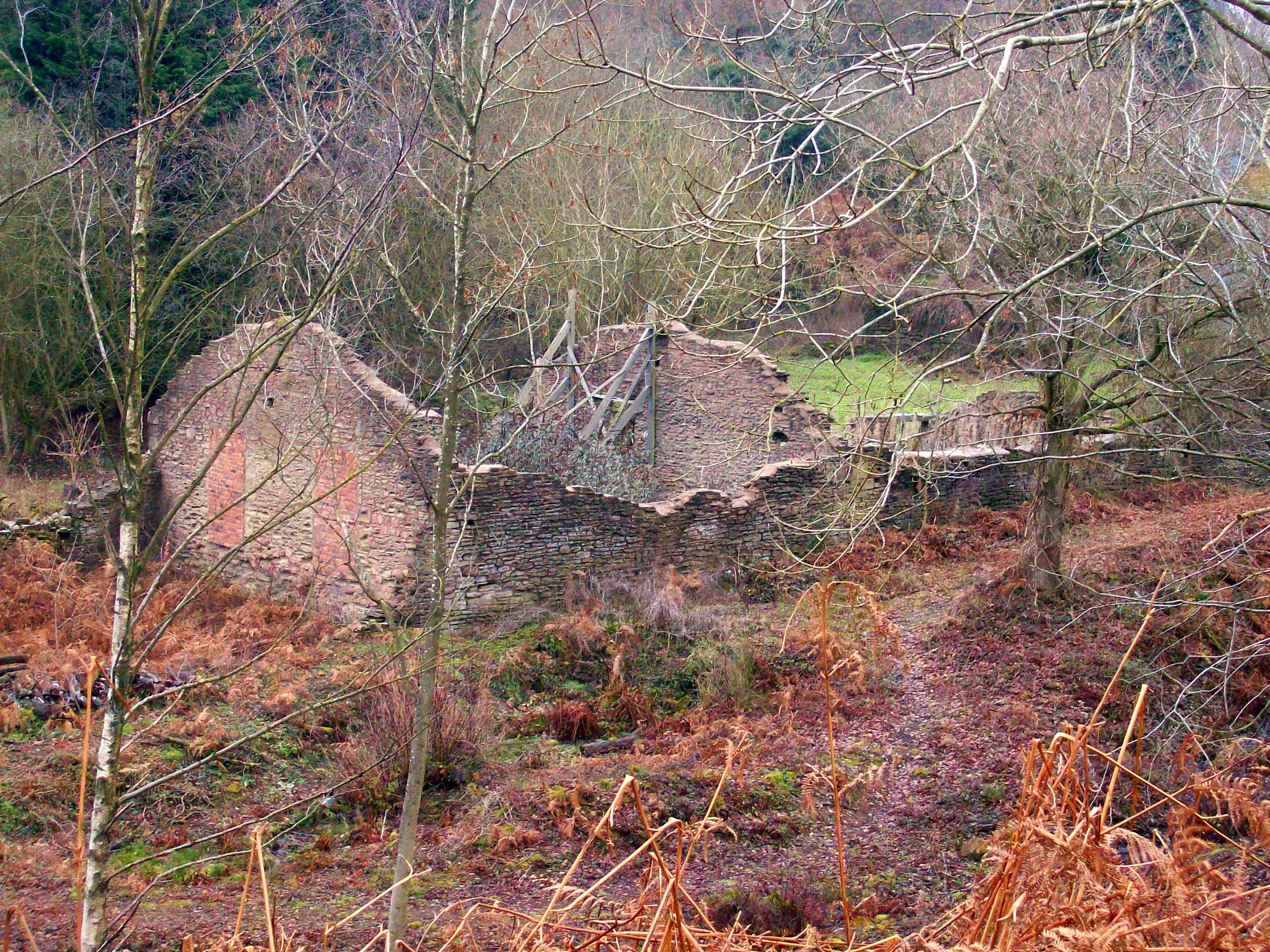 The Titanic Steelworks, near Gorsty Knoll in the Forest of Dean